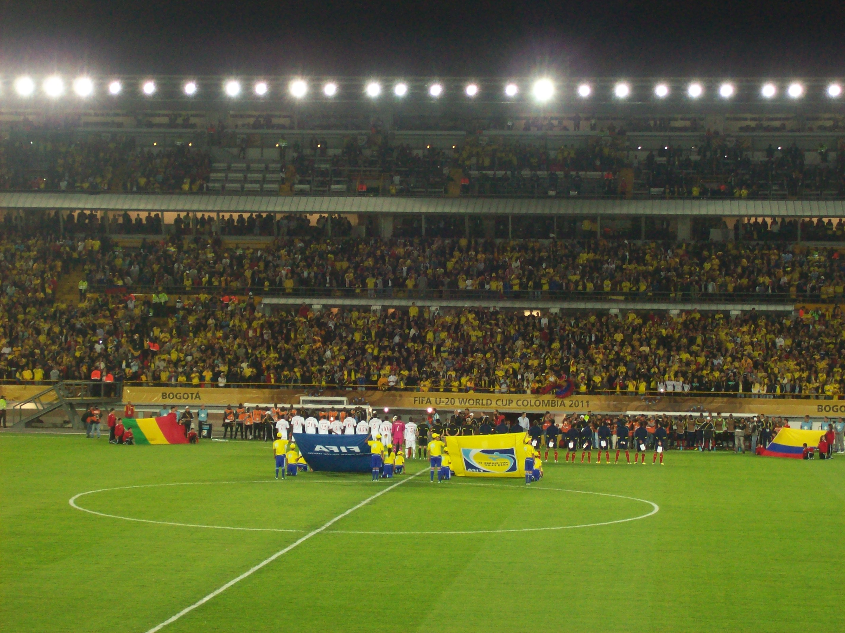 Match Colombia - Mali, 2011 FIFA U-20 World Cup (Bogota)